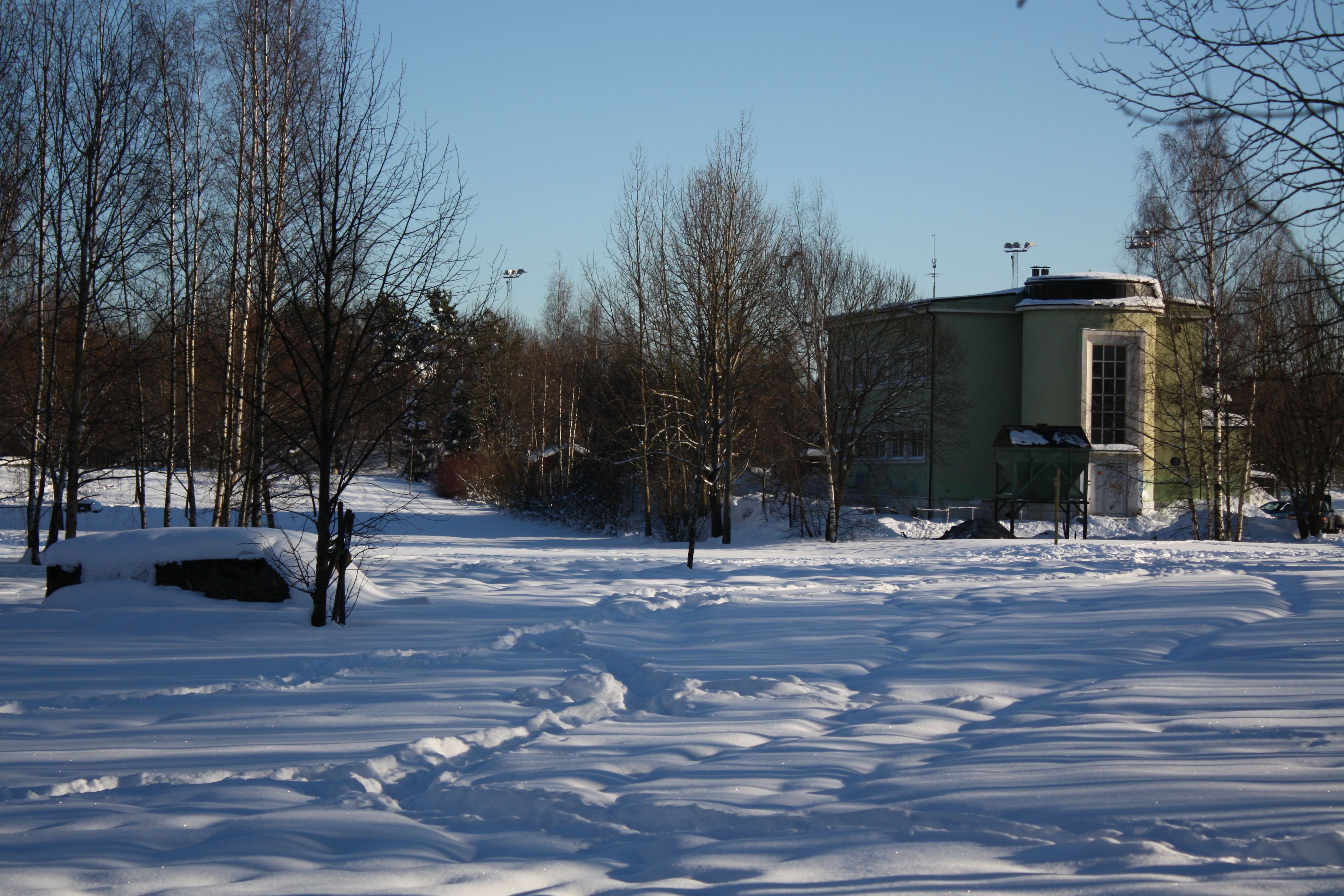 Image of Oslo Kringkaster(1929-1954)